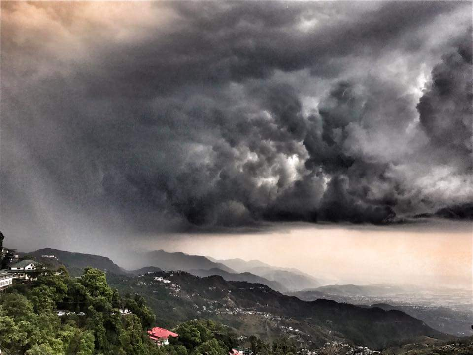 If you're few kms above Dehradun city to Mussorie, you will feel to stay at sidewalk for a while and enjoy this.